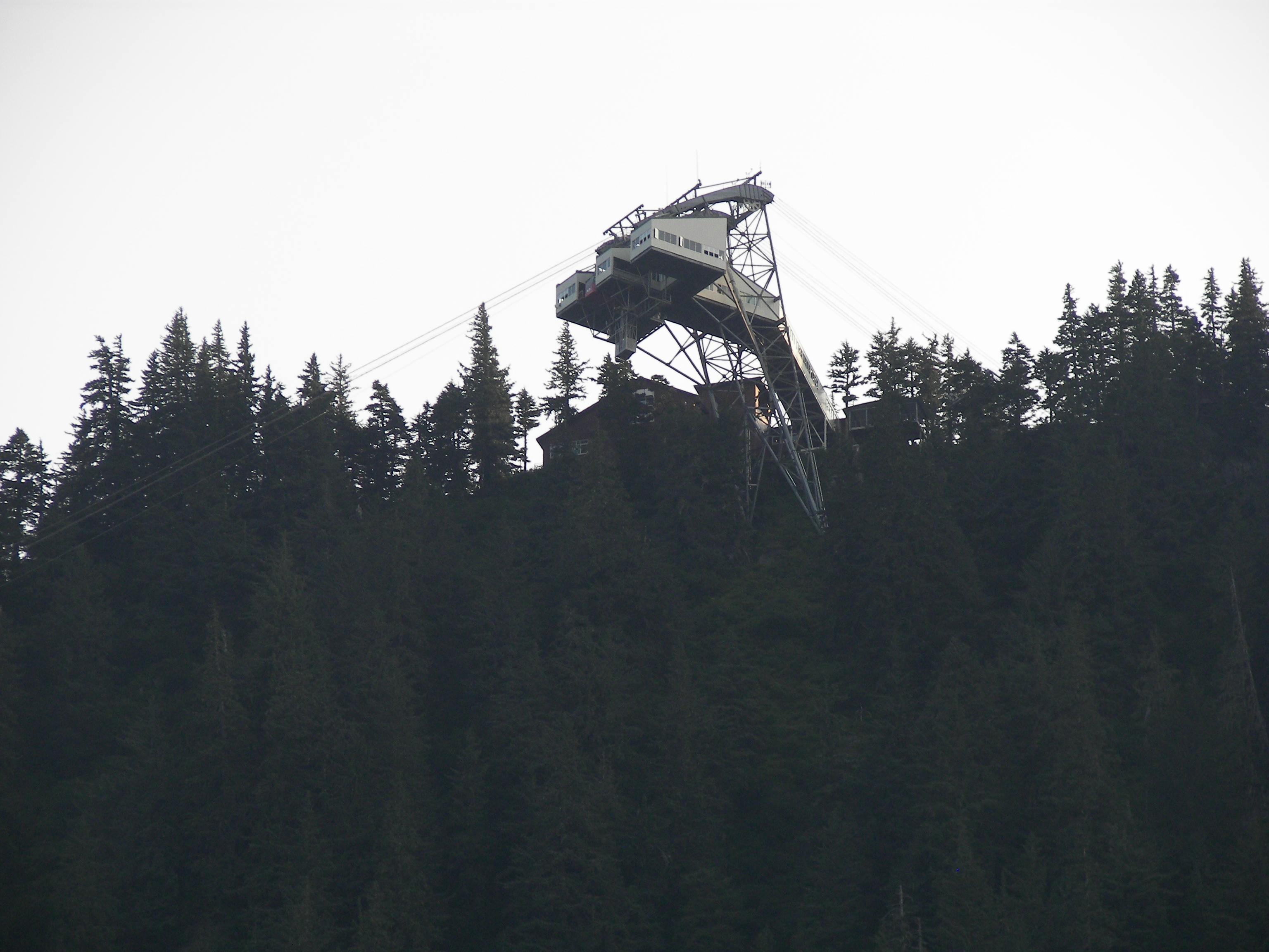 Mount Roberts Tramway on Mount Roberts above downtown Juneau, Alaska, United States.